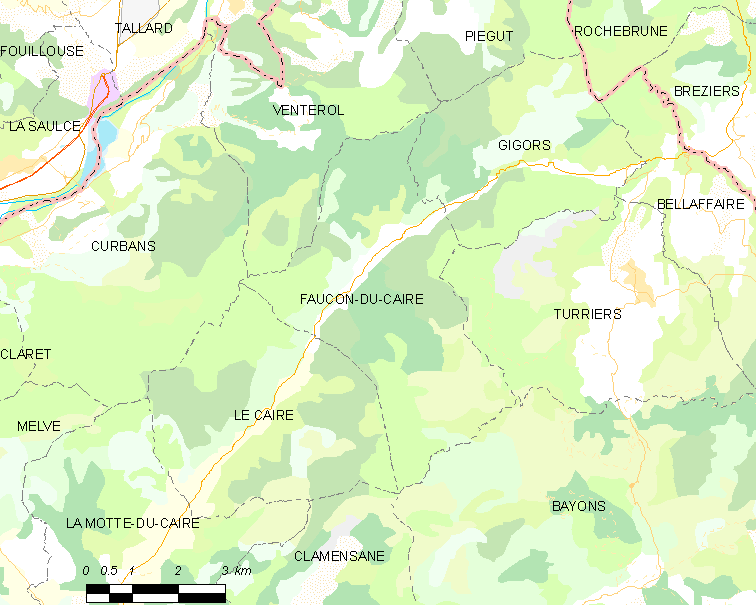 Map commune FR insee code 04085.png Légende